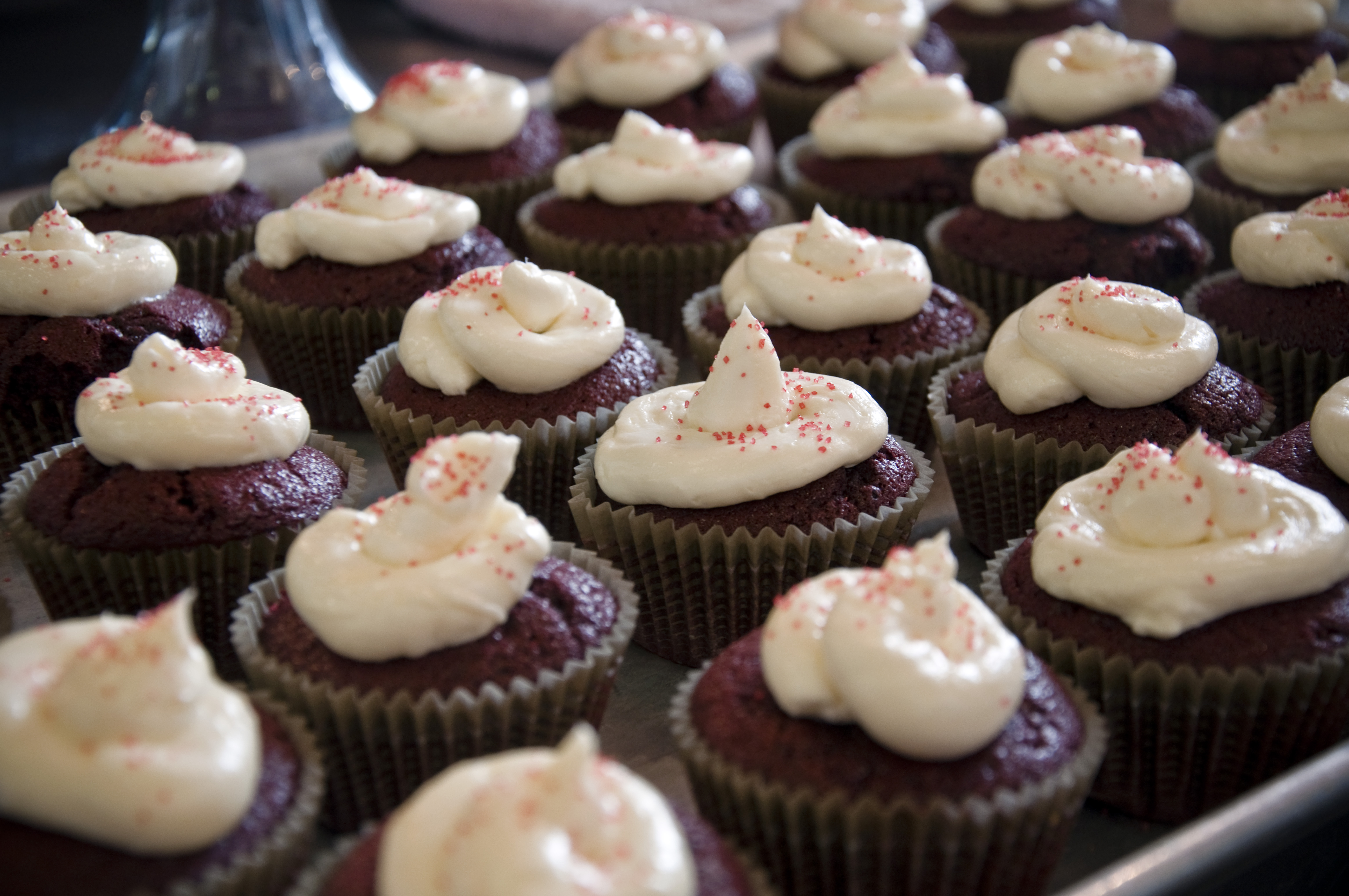 Chocolate cupcakes with cream icing and red sprinkles.